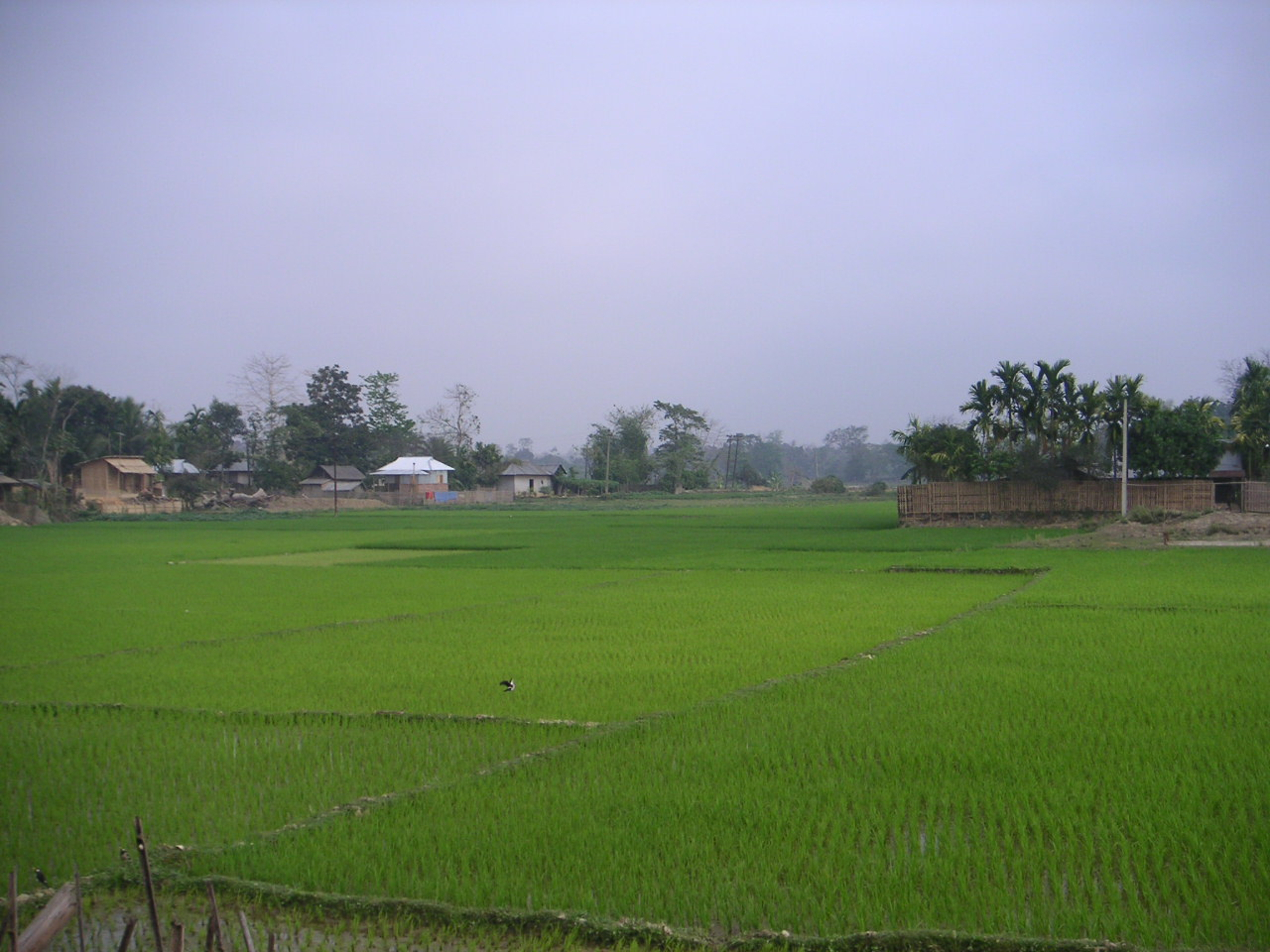 Ricefields, Tripura. Photo: Soman